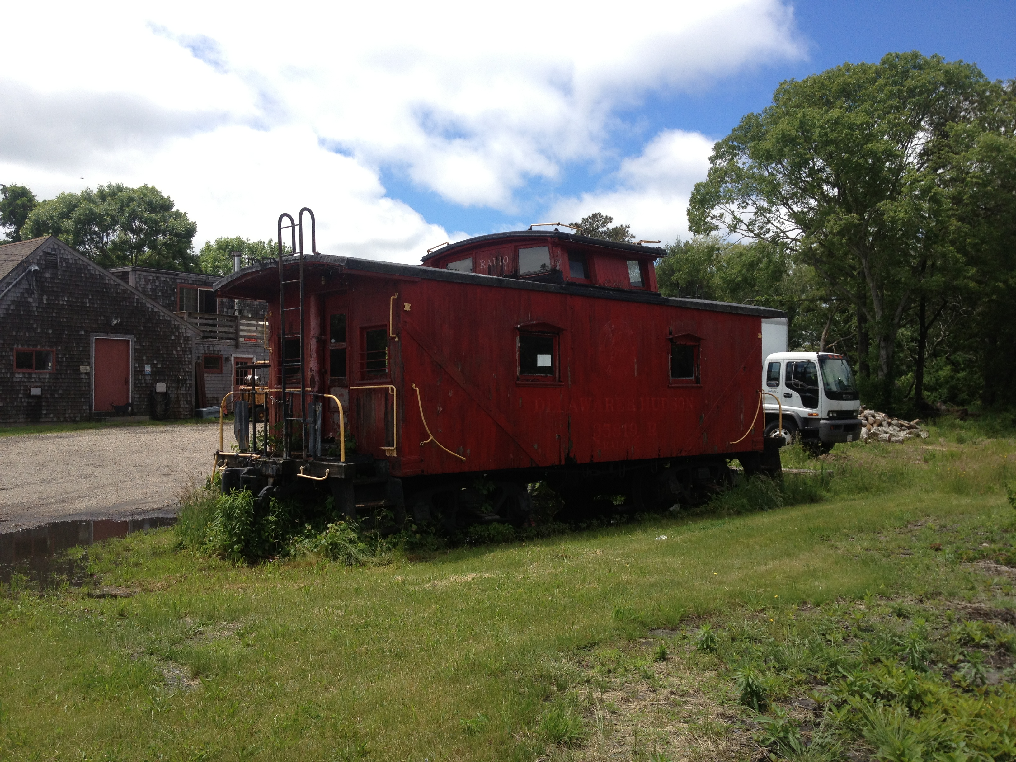 Delaware Hudson Railroad caboose 35819, part of the Cape Cod Stencil Company.